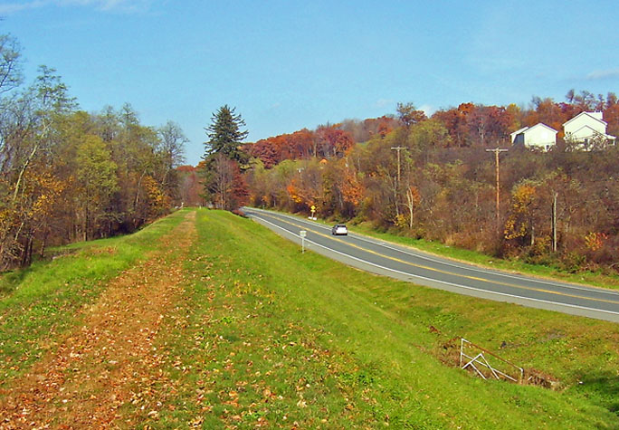 Photographed by Daniel Case 2006-11-01